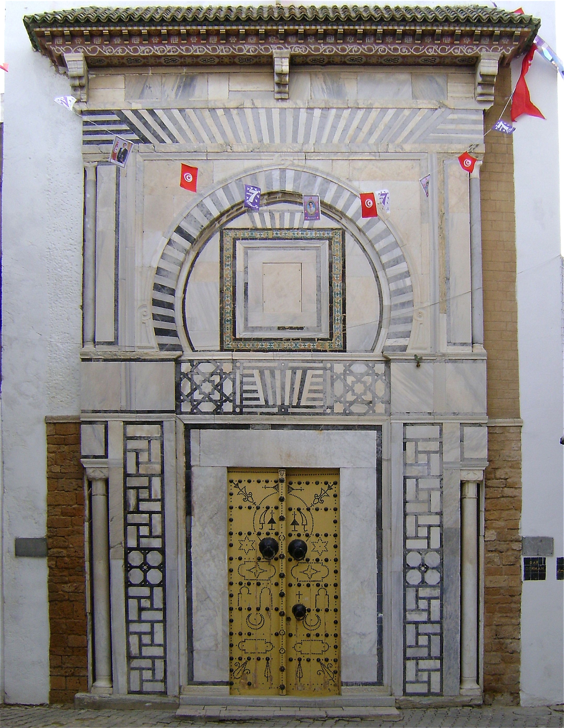 The door of Dar Othman, a former Tunisian palace.